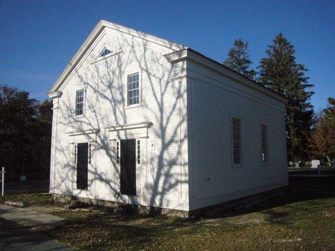 My 2009 photo of Old Indian Meeting House, a Native American Church, in Mashpee, Massachusetts, USA.